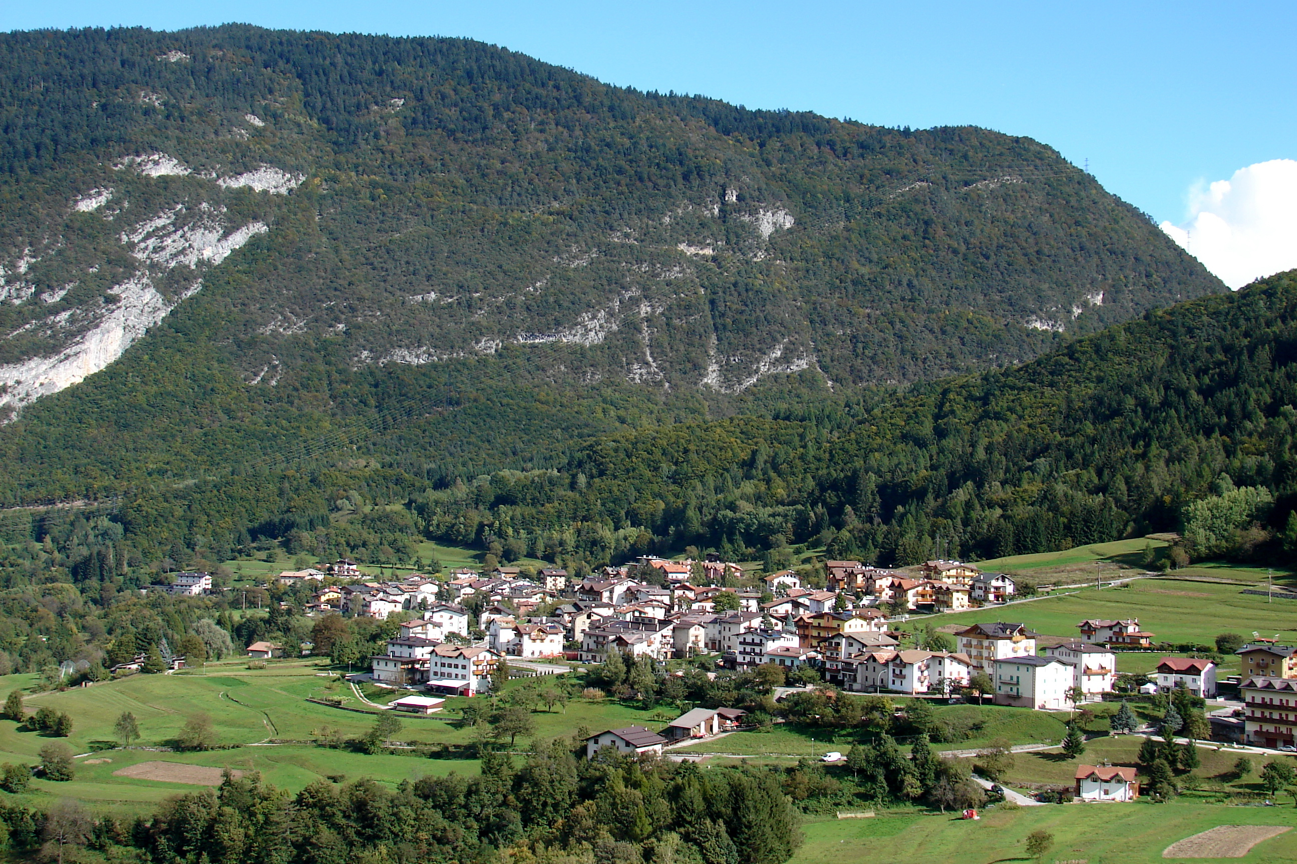 Panorama von Cavedago